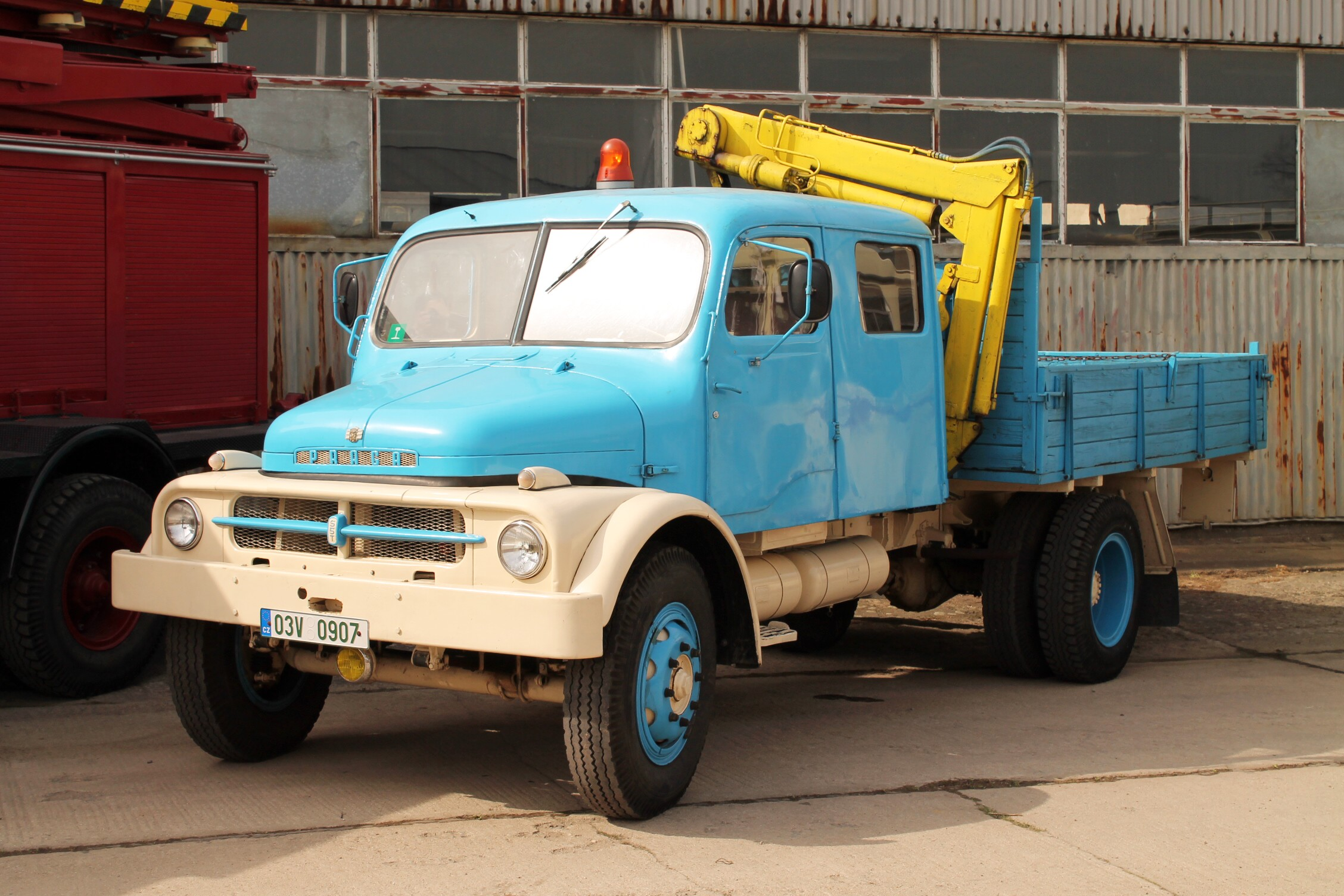 Praga S5T historical truck, depository of Technical Museum in Brno, Czech Republic